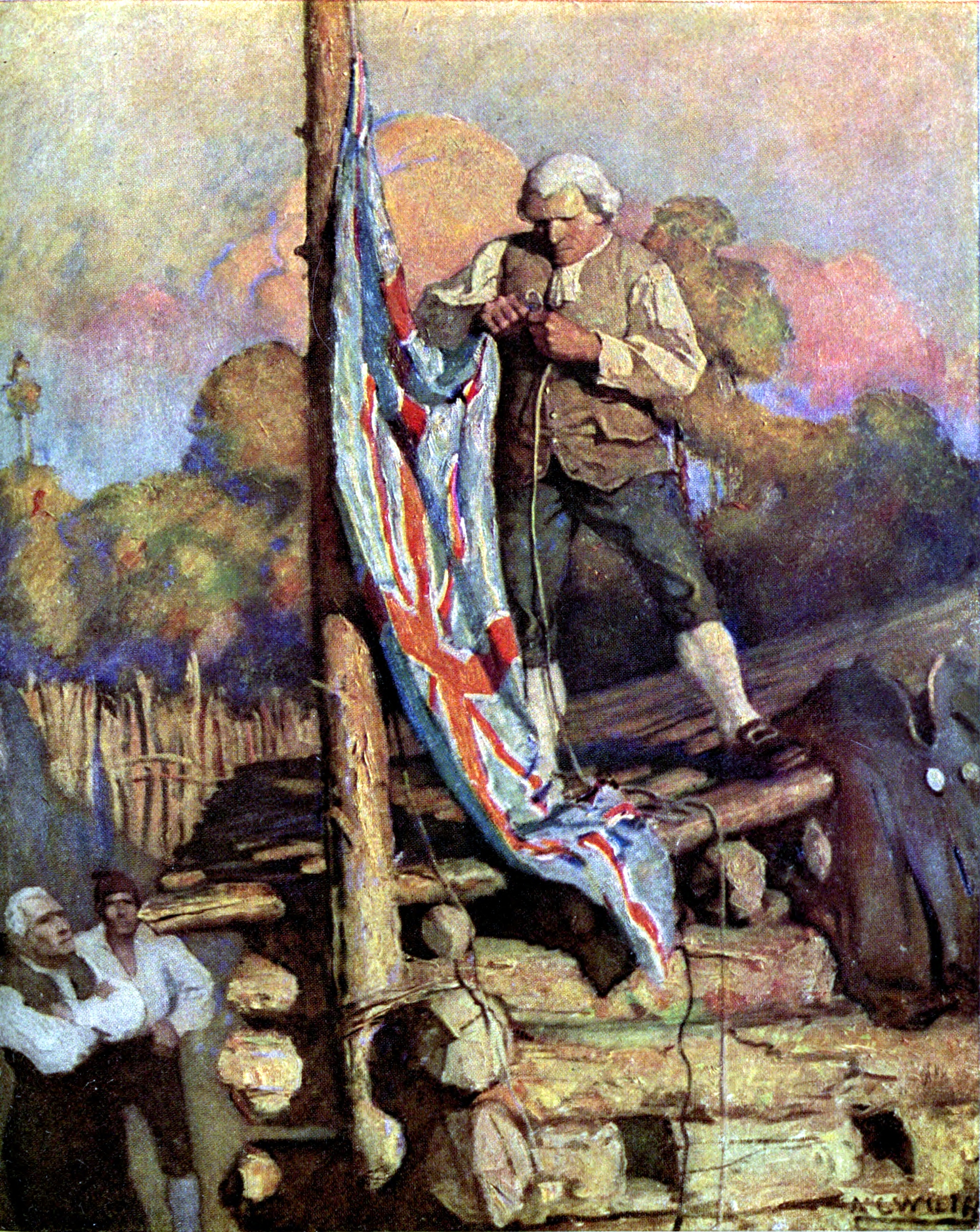 Captain Smollet Defies the Mutineers. Captain Smollett, running up the Union Flag on Treasure Island after the mutiny. Illustration by N. C. Wyeth for Treasure Island by Robert Louis Stevenson, Charles Scribner's Sons, 1911